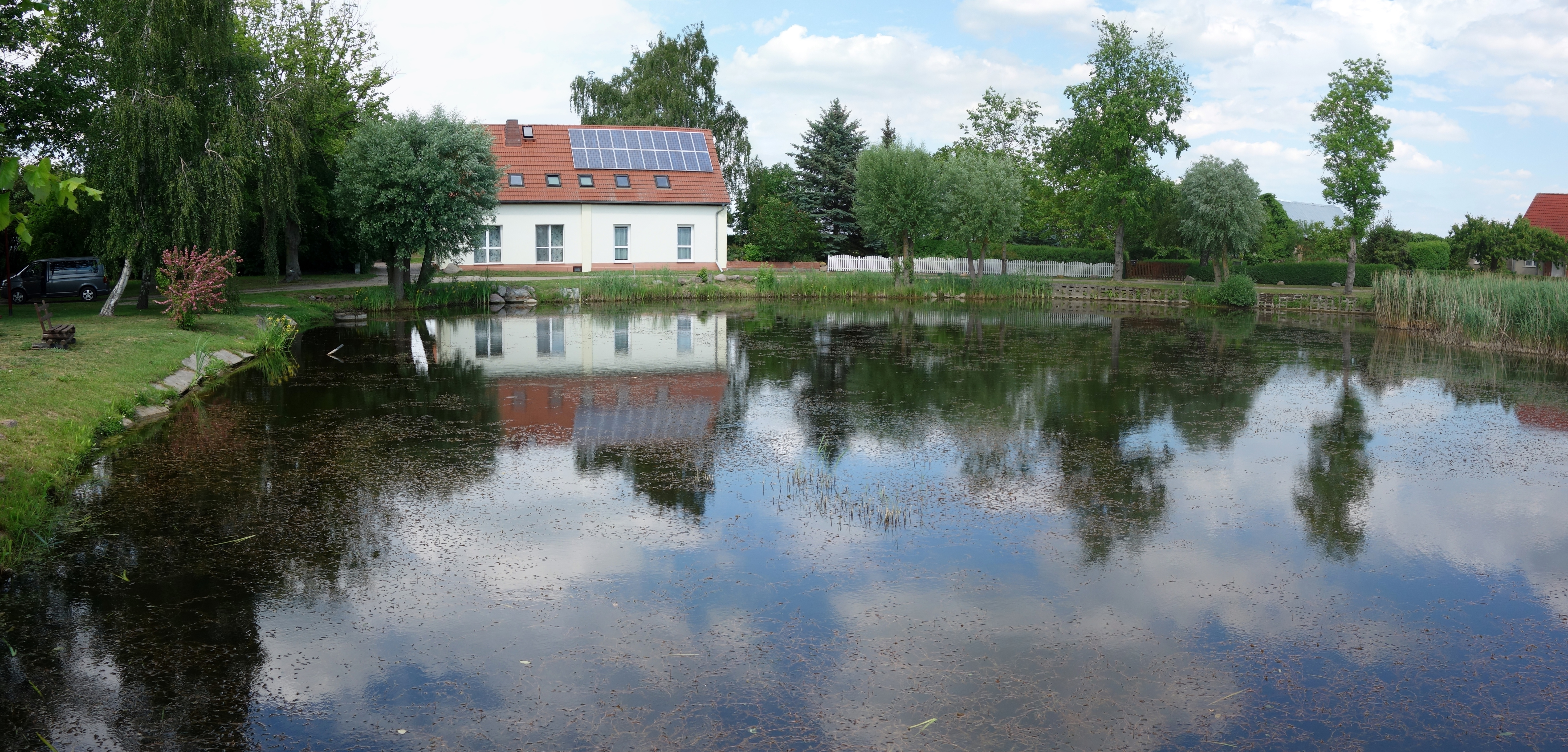 South-south-western view of the village pond in Jamikow , Passow municipality , Uckermark district, Brandenburg state, Germany.